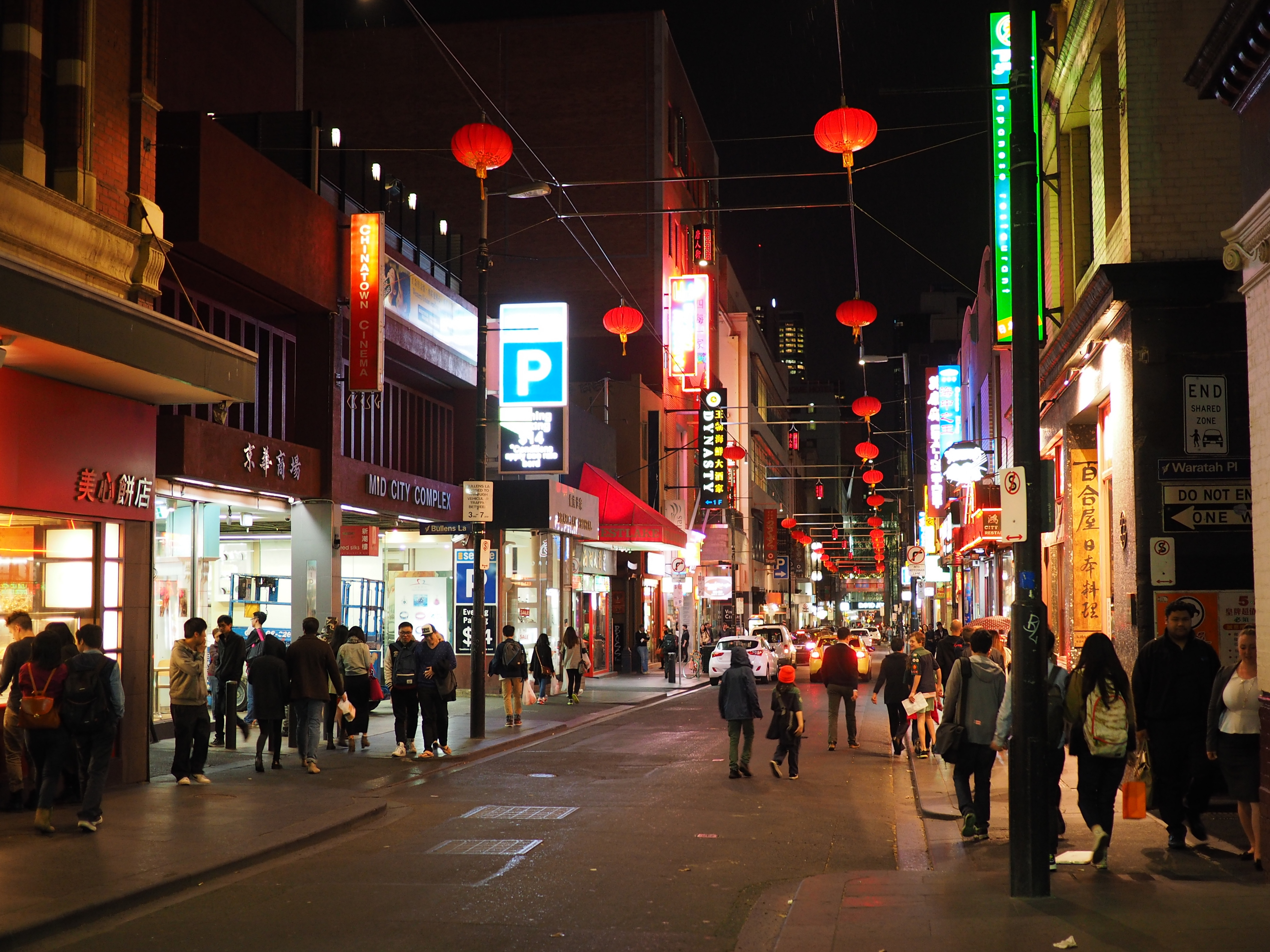 View along Little Burke Street (between Russell and Swanston streets) in Melbourne's Chinatown